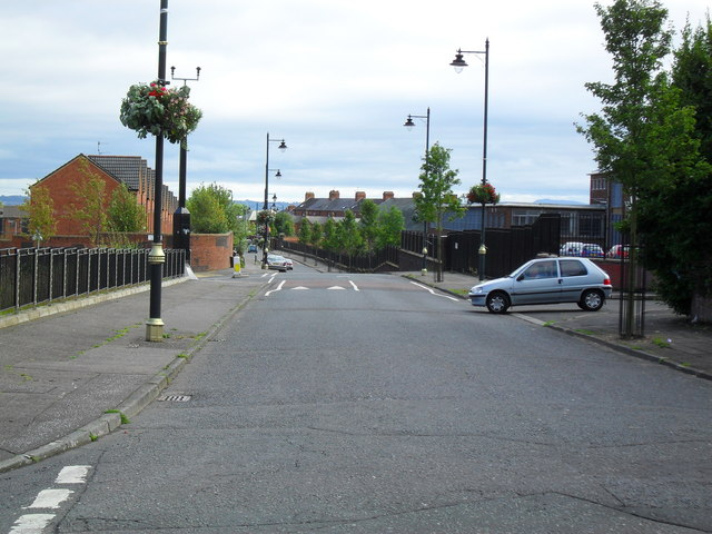 "The Divide", Ardoyne Road, Belfast This is one of the most sudden and certainly one of the most contentious religious divides in Northern Ireland. In the 1960s the whole Ardoyne was a mixed area which was viewed as one step above the slums and terraces of the Shankill. Although Protestants and Roman Catholics lived side by side as neighbours - everyone knew who was on whose side. When the conflict fired up in 1969 - suspicion arose and Protestants moved towards the northern end of the Ardoyne, towards Ballysillan which was established as Protestant. Roman Catholics, on the contrary, moved towards the Ardoyne roundabout and the Holy Cross Chapel. This shift eventually caused an imaginary line between Alliance Avenue and Glenbryn Park. The continual violence here prompted the construction of a Peace Wall. Thankfully there has been a marked decrease in sectarian violence here since the 2001 Holy Cross dispute. This is taken from the Protestant 'Upper Ardoyne' looking towards the Roman Catholic area - which begins roughly where the Peugeot 106 is emerging.